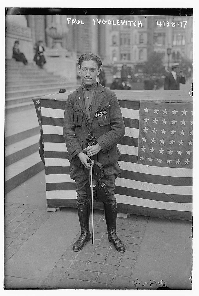 Paul Iogolevitch in 1916